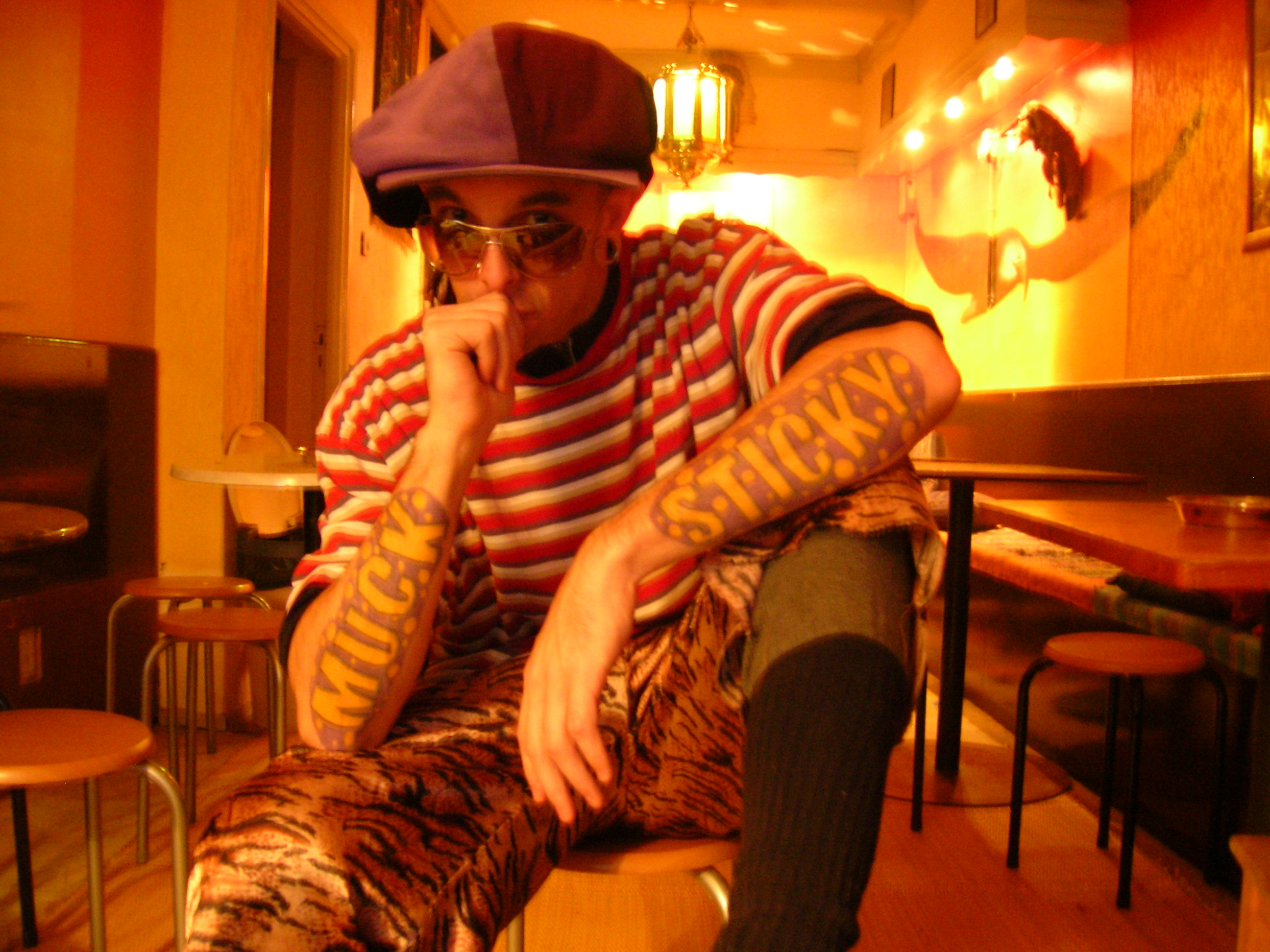 Picture of Muck Sticky